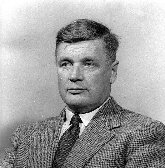 Photograph of the Finnish composer Uuno Klami (1900–1961).